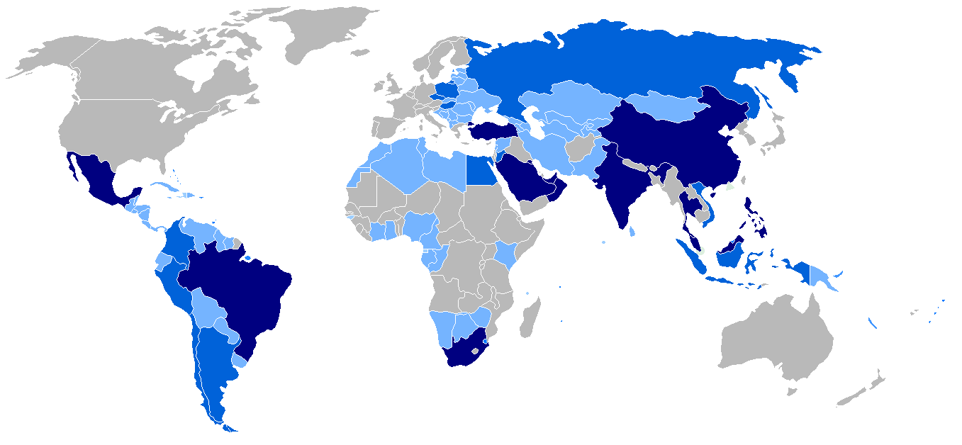 Developing countries excluding LDCs (Least Developed Countries) Newly industrialized countries Other emerging markets Other developing economies